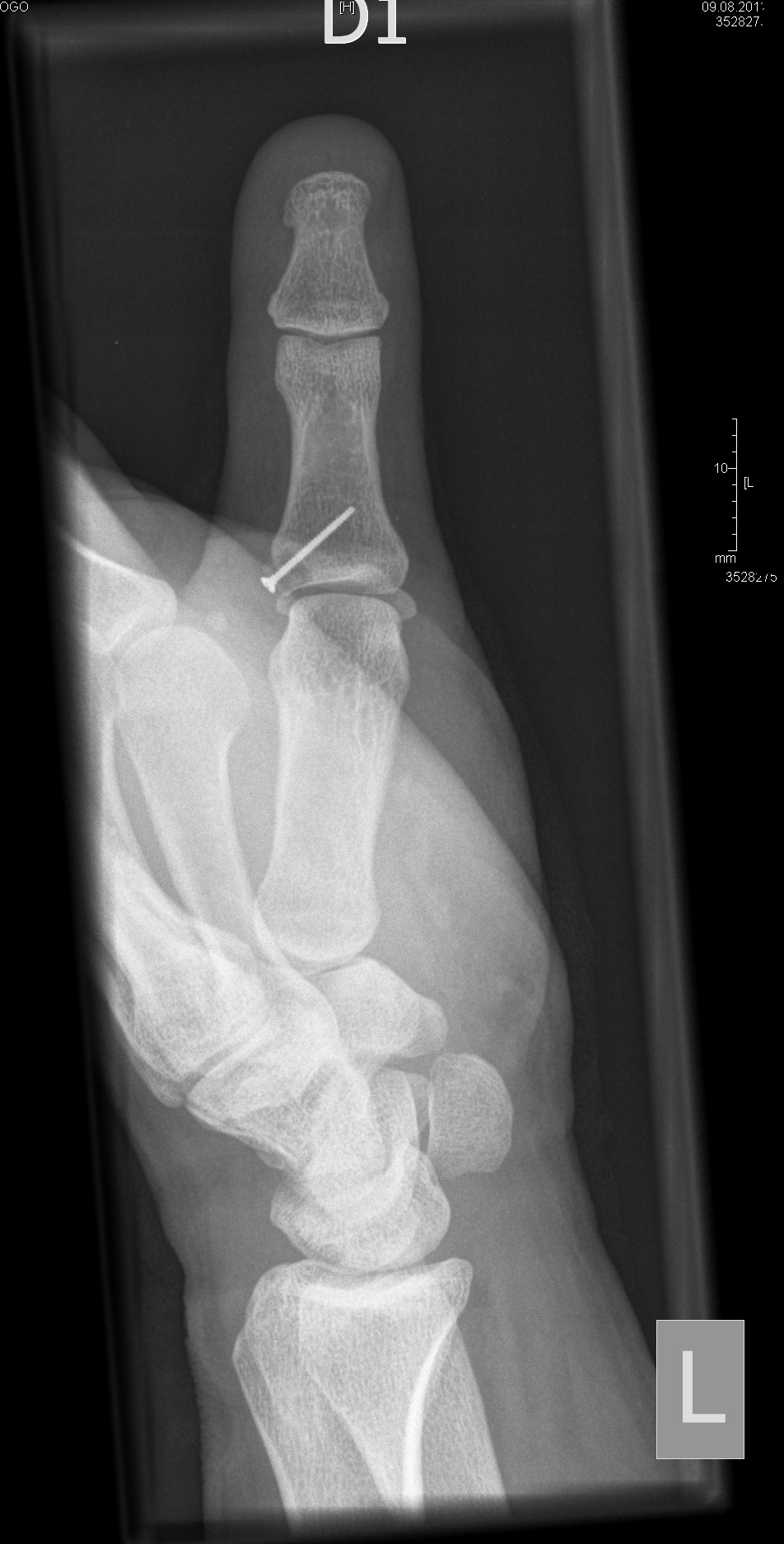 Ligament bone injury, left hand (X-ray).